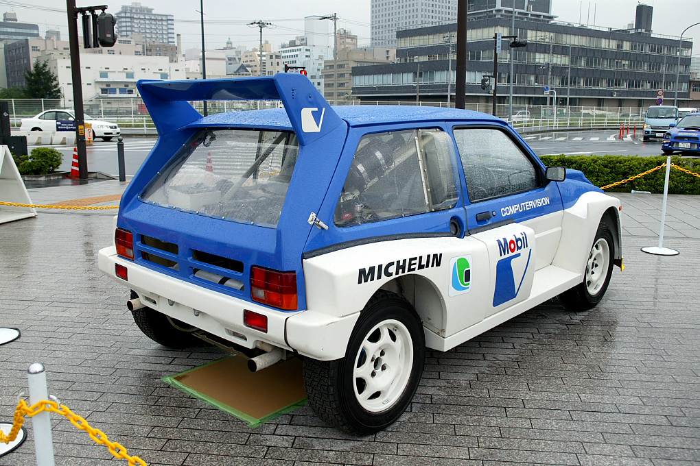 MG Metro 6R4 at The Spirit of Rally 2005.